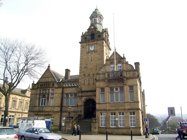 Town Hall. Built in 1892. Cleckheaton, West Yorkshire, England